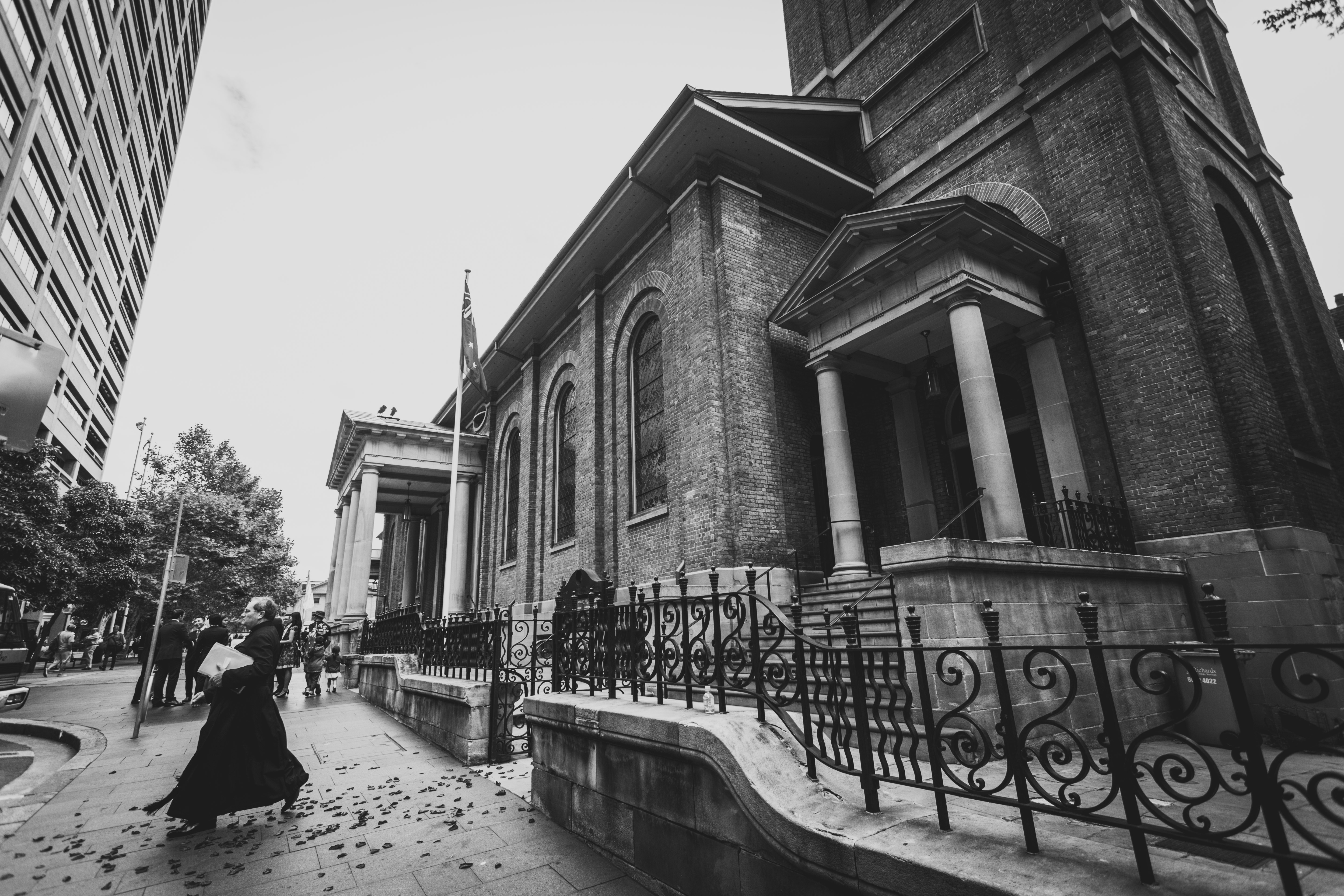 The rector leaving the front of St James' Church, Sydney after a wedding